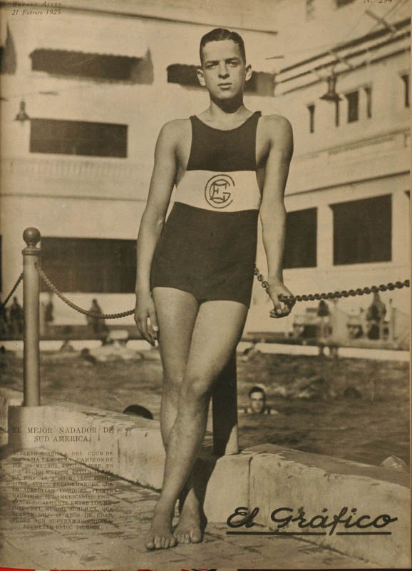 Argentine swimmer Alberto Zorrilla in 1925.